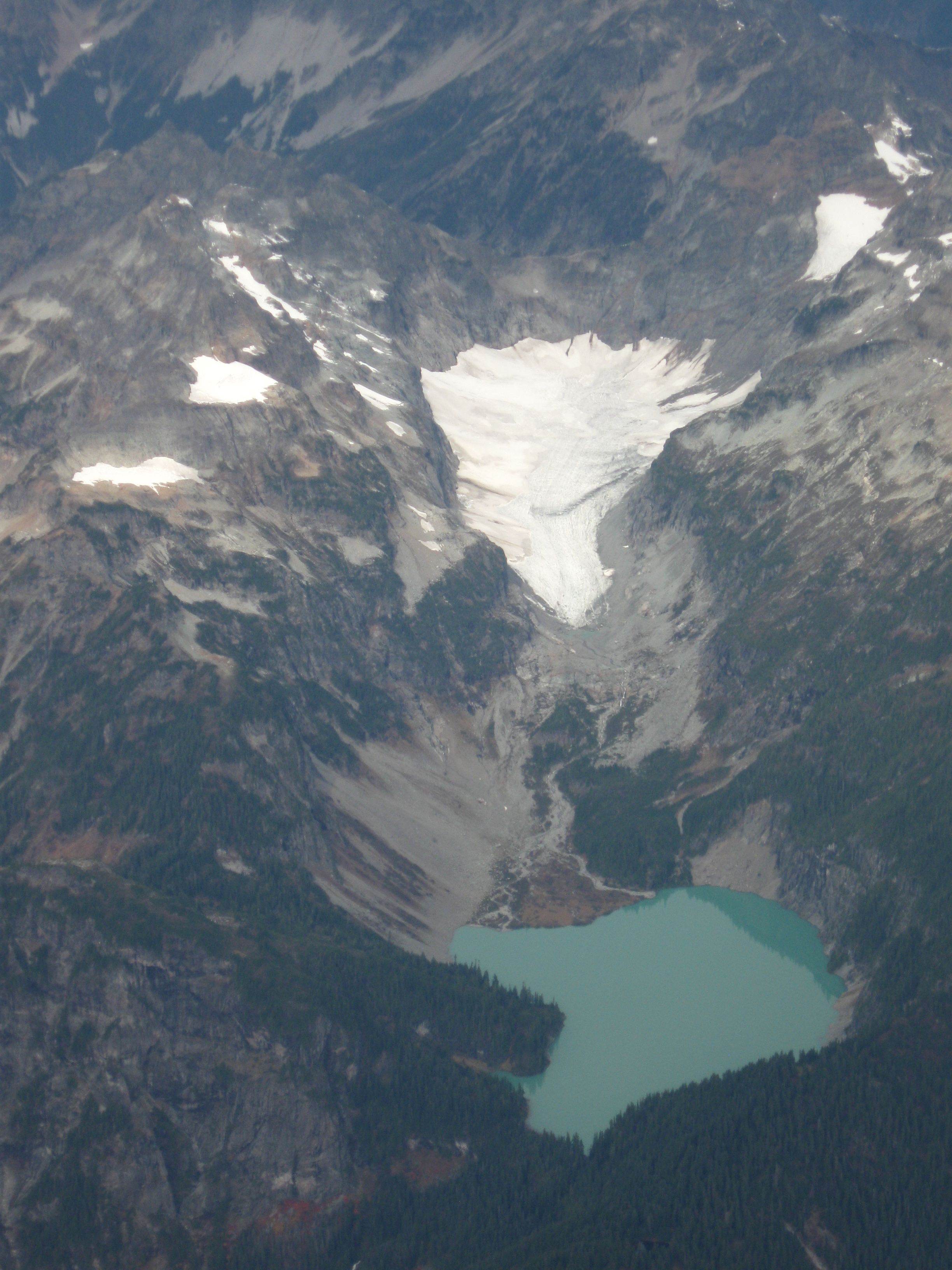 Columbia Glacier in Washington in early Fall as viewed from a Northwest Airlines Boeing 757 approaching Seattle from MSP.